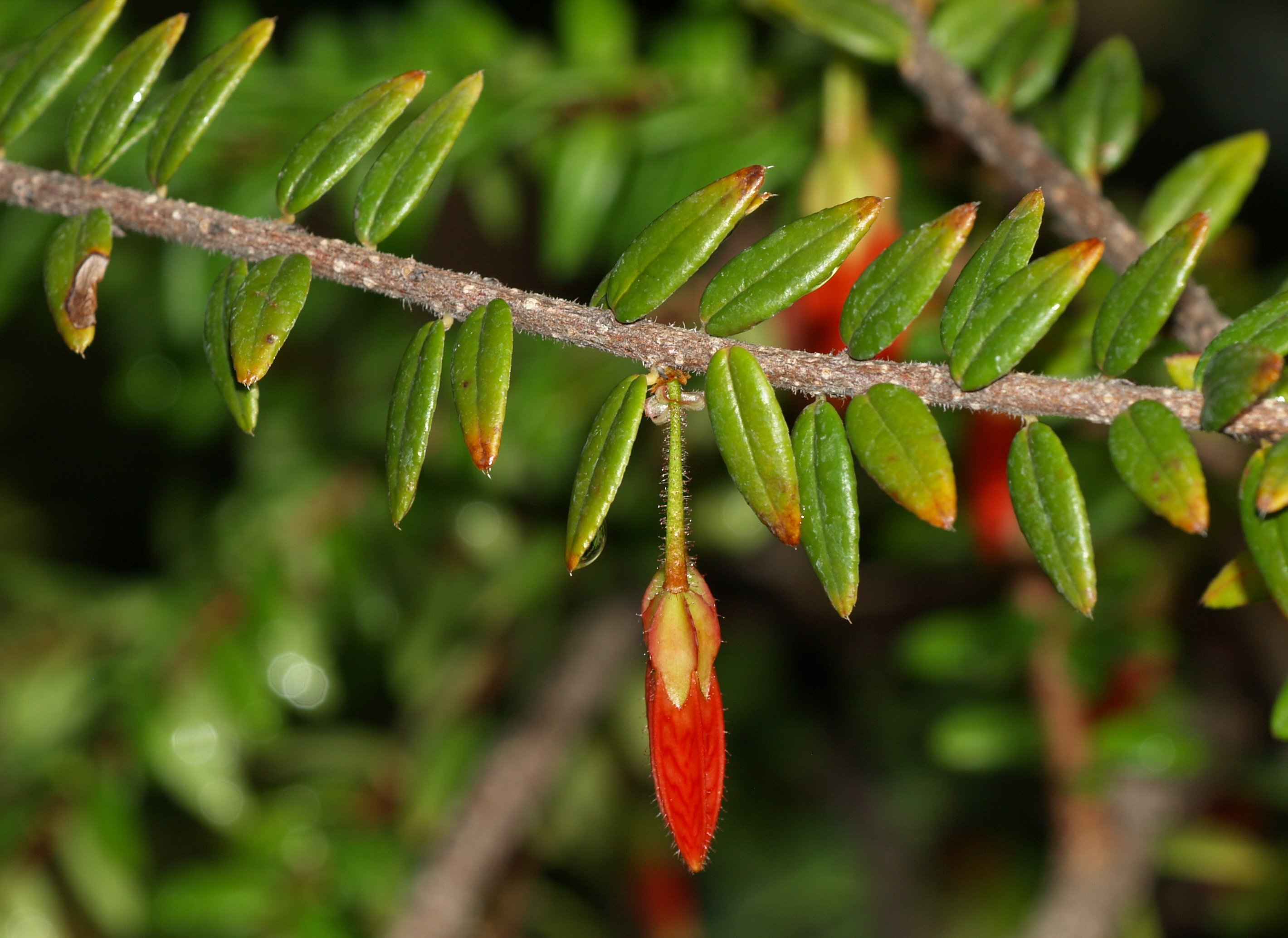 Agapetes serpens from the Botanical Garden (Flora) of Cologne, Germany.